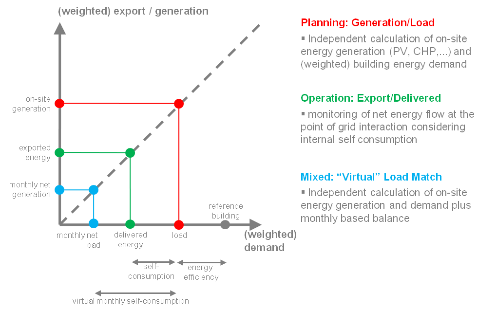 Graphical representation of the different types of balance: import/export balance between weighted exported and delivered energy, load/generation balance between weighted generation and load, and monthly net balance between weighted monthly net values of generation and load.